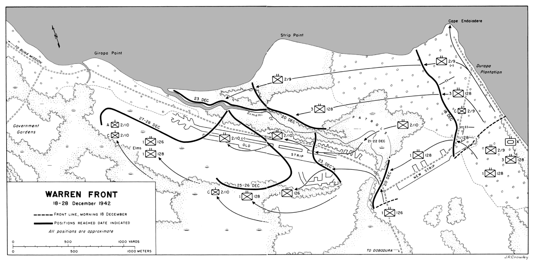 USA-P-Papua-13 Map 13 milner 18-28 December 1942 .jpg